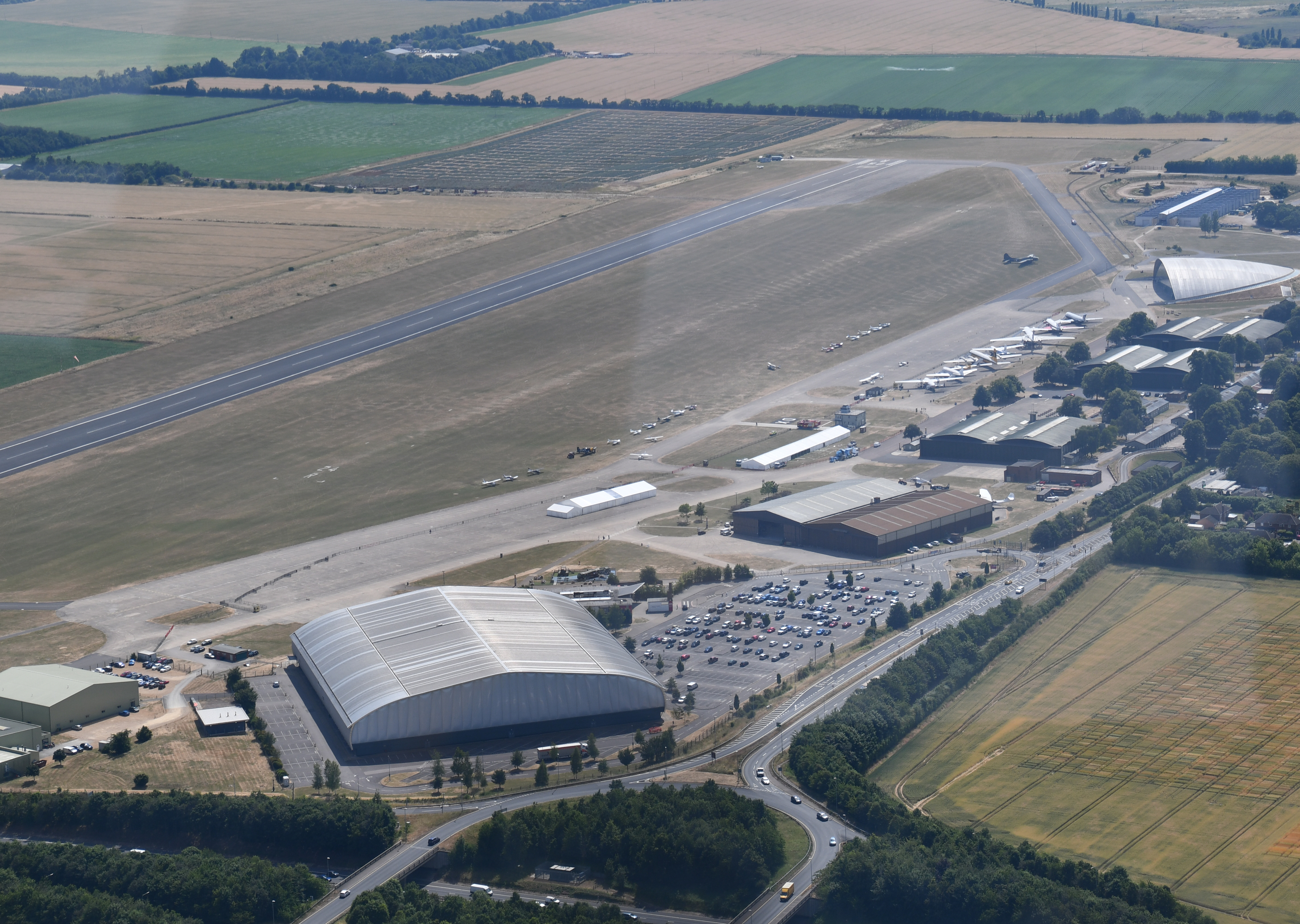 Imperial War Museum Duxford